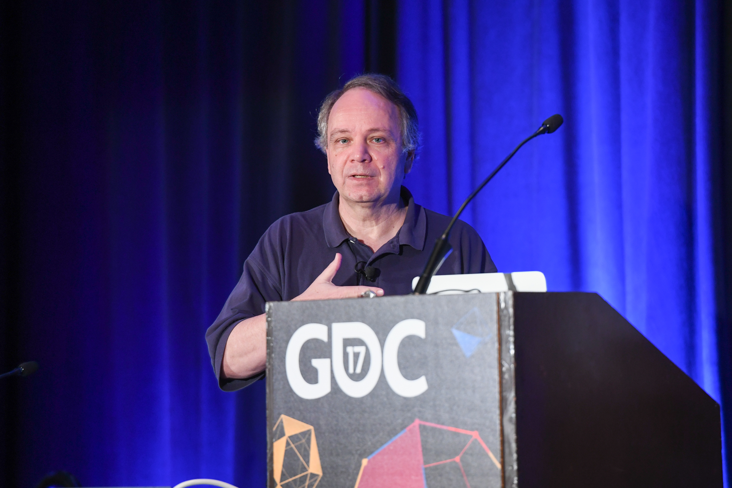 Sid Meier gives a classic post-mortem on the game Civilization at the 2017 Game Developers Conference.